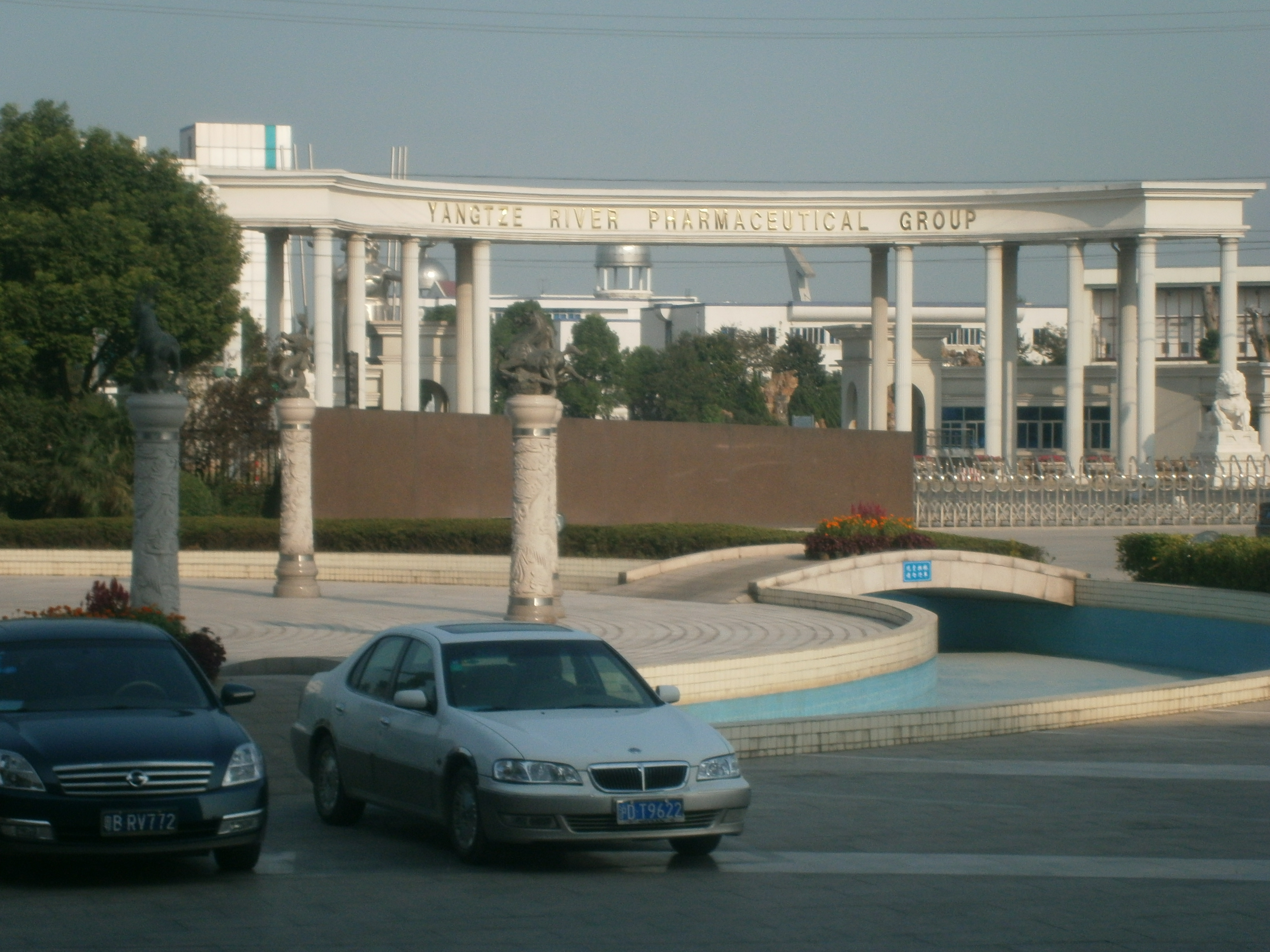 Yangtze River Pharmaceutical Group, Gaogang district, Taizhou, Jiangsy province, Peoples Republic of China, as seen from the Petrel Hotel across the street.